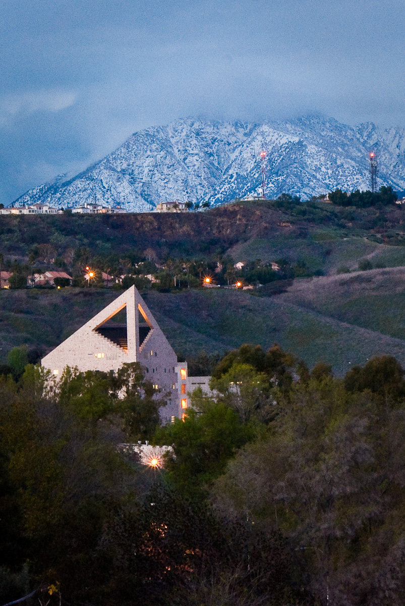 CLA Building on the campus of Cal Poly Pomona with the San Garbriel Mountains in the background.